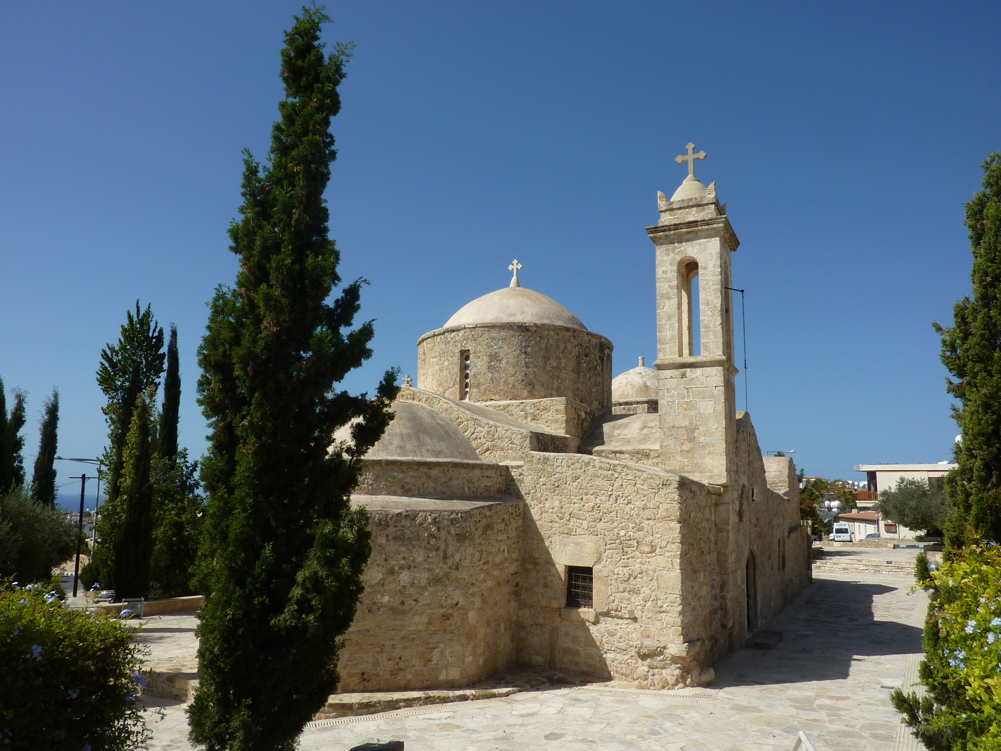 Panagia Chryseleousa, Emba